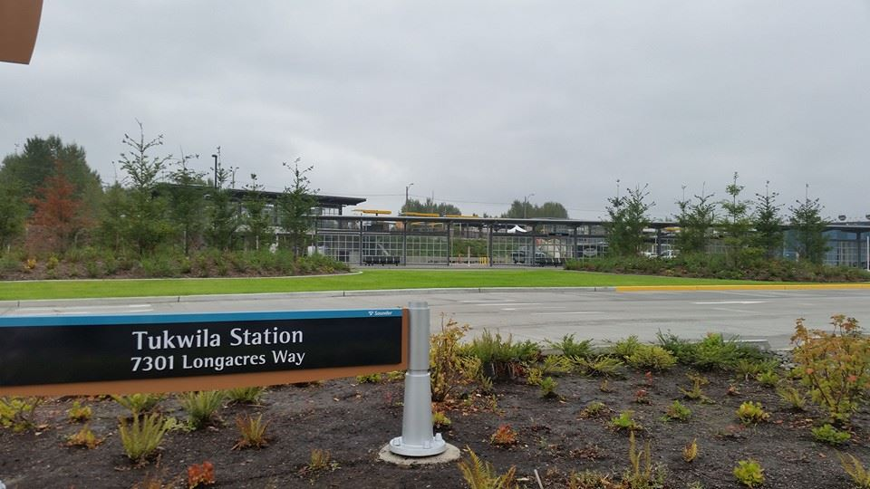 A view of Tukwila Station as seen from driveway